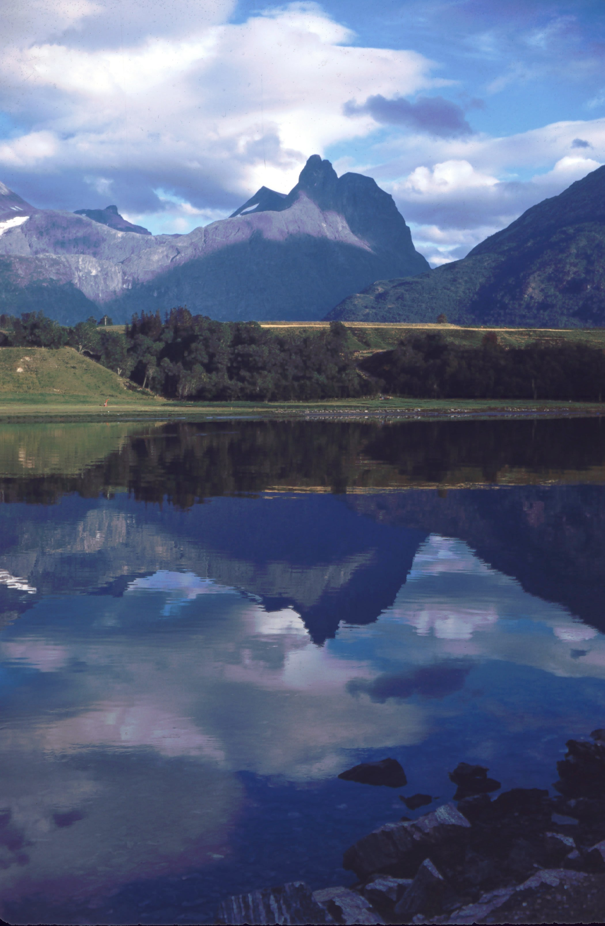 Romsdalshorn, Norway (from Åndalsnes)